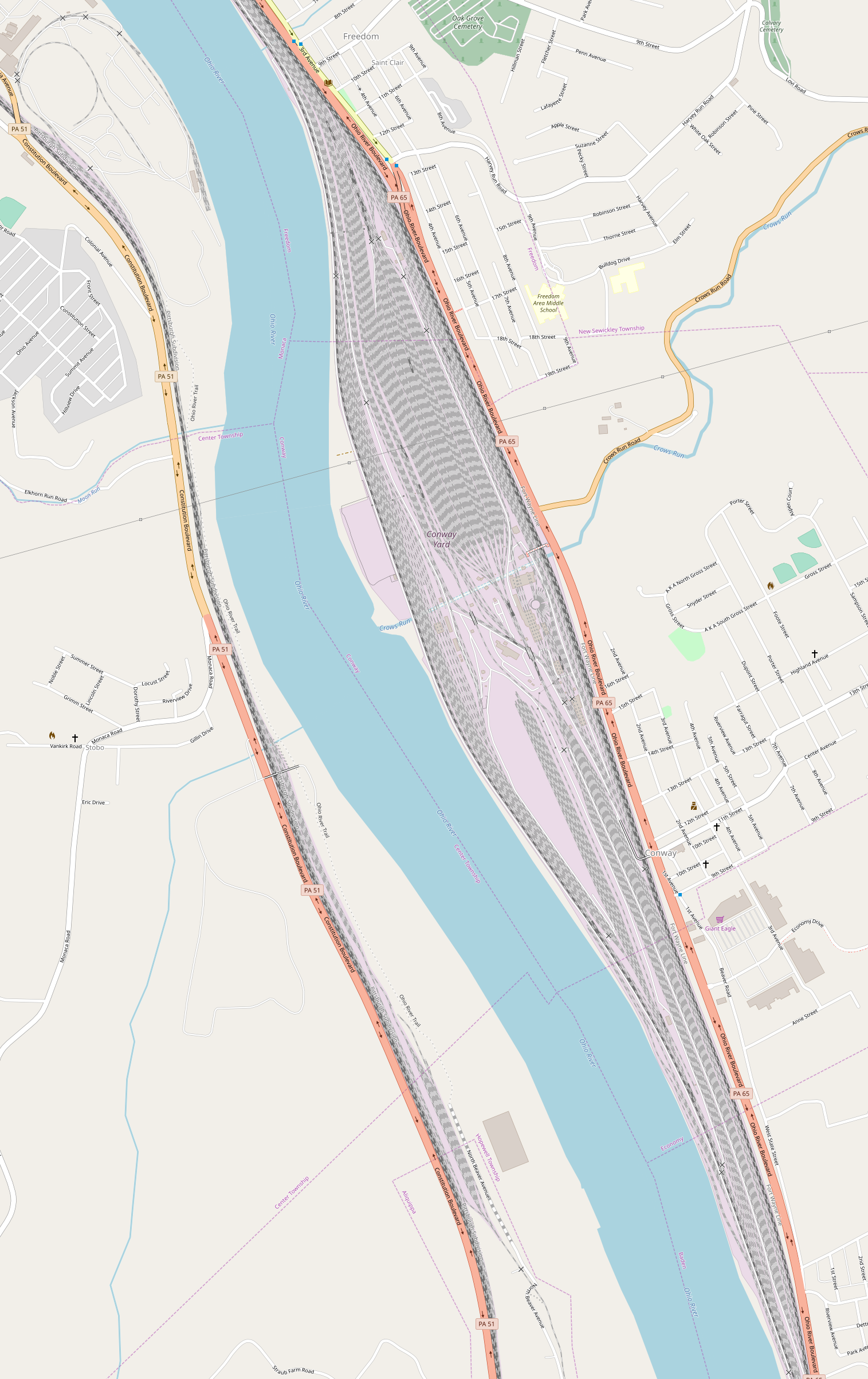 Conway Yard (Norfolk Southern Railway) in the boroughs of Conway (South) and Freedom (North), Pennsylvania